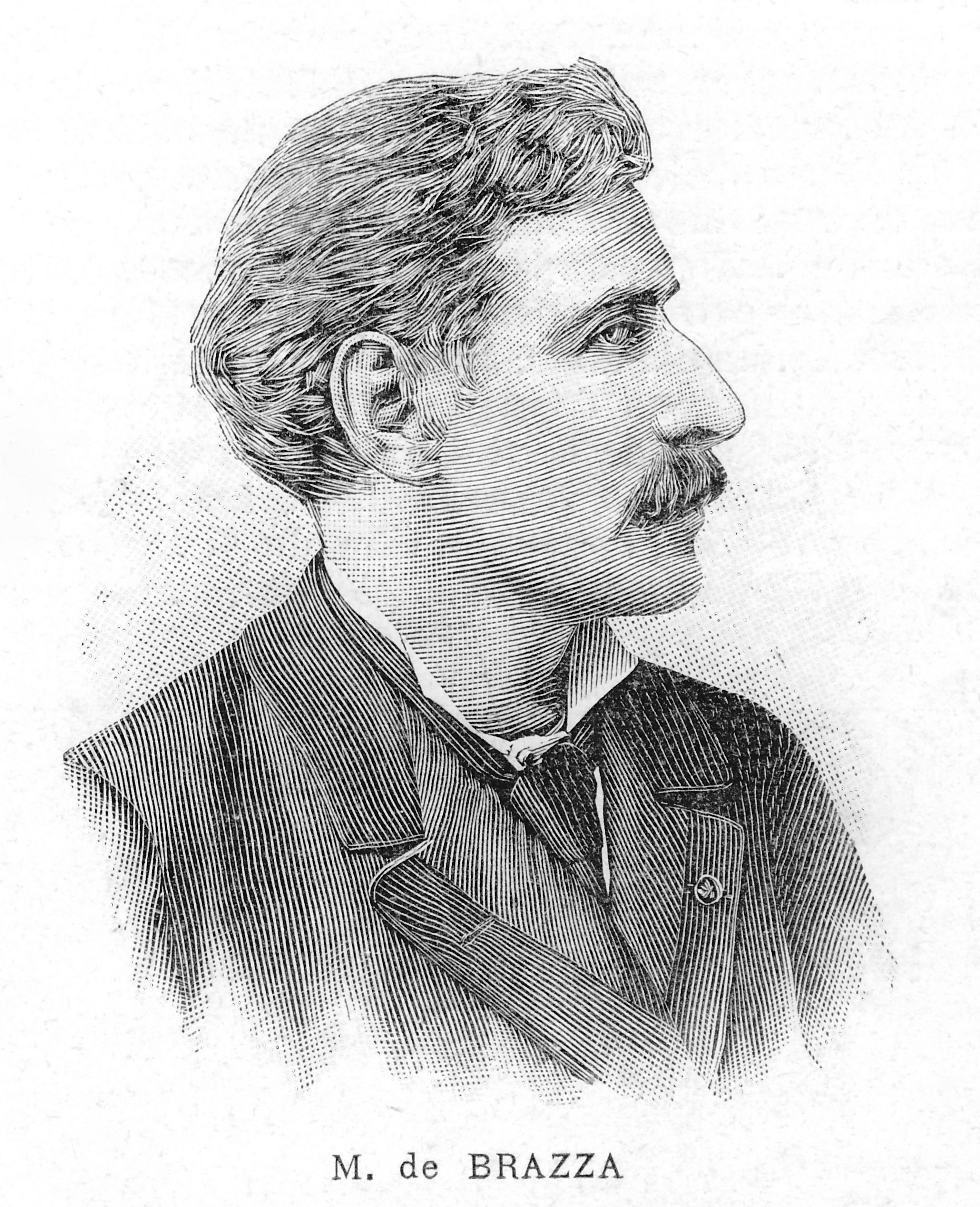 Pietro Savorgnan di Brazza, explorer of the Congo